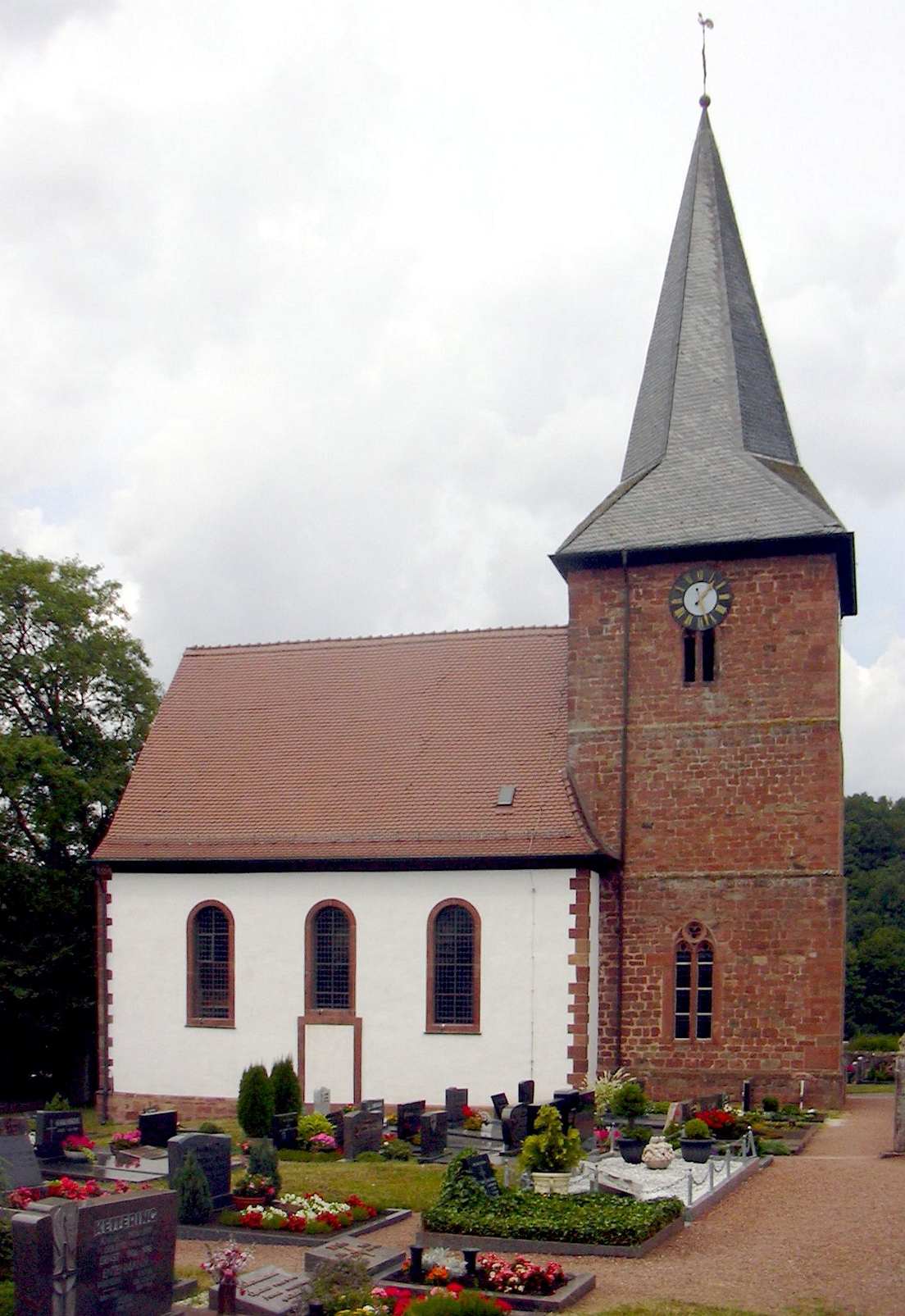 Protestant Church Burgalben, Palatinate/Germany